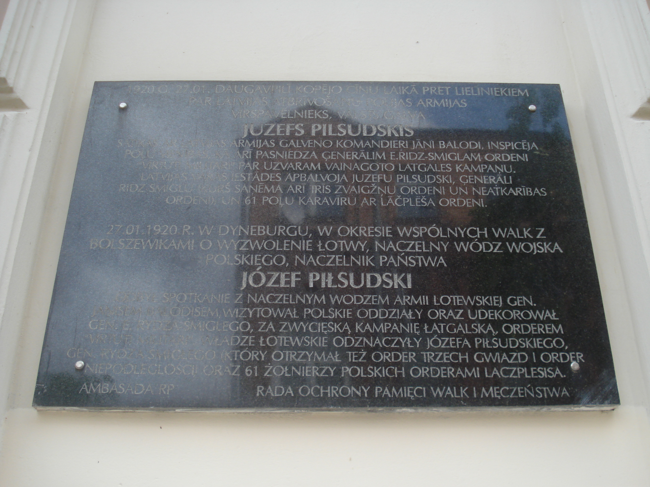 Memorial plaque in Daugavpils (in this building at the corner of Krišjāņa Valdemāra and Ģimnāzijas ielas Józef Piłsudski held a conference with Janis Balodis, Latvian general, 1920)